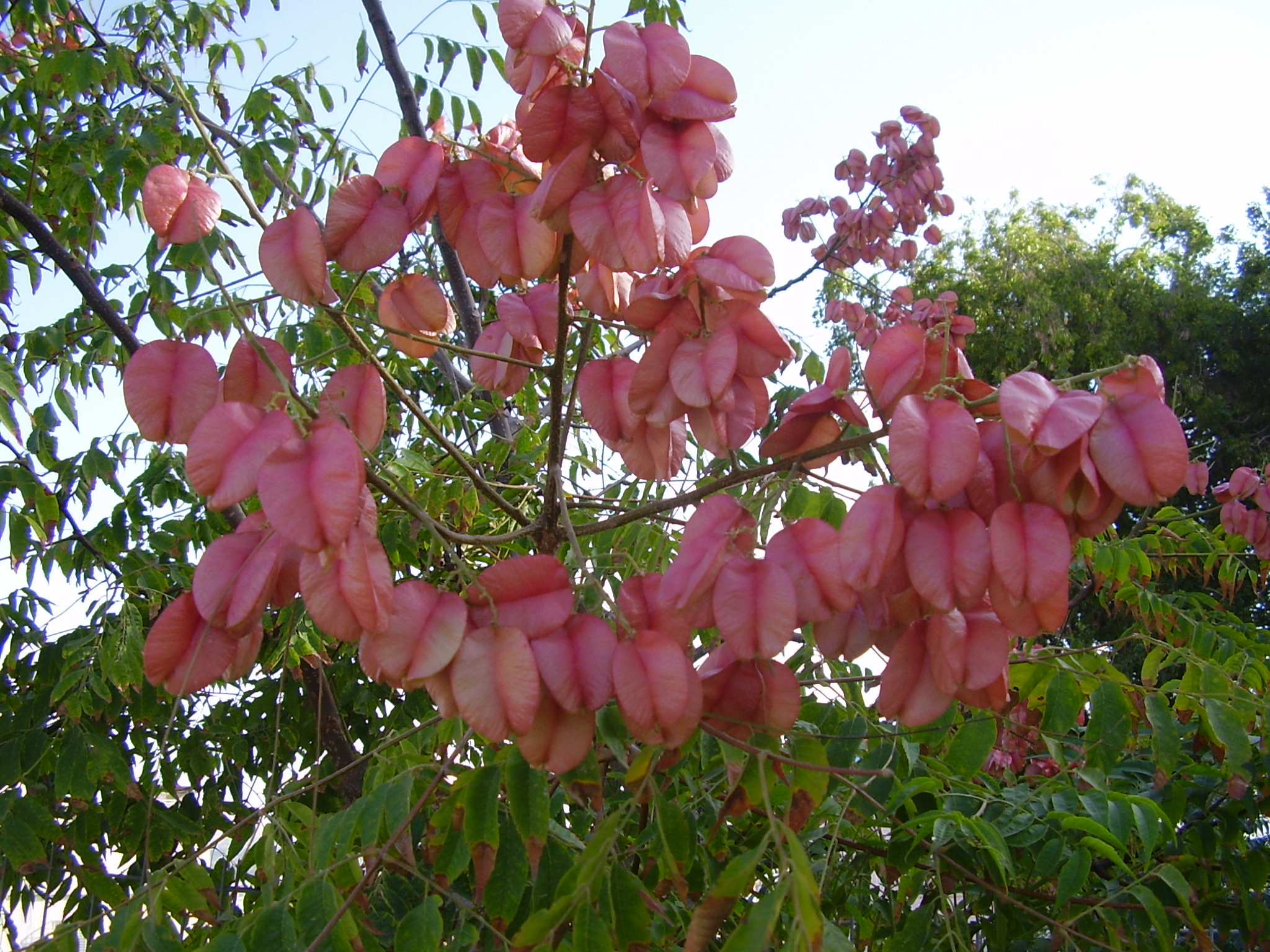 fruits of koelreuteria bipinnata